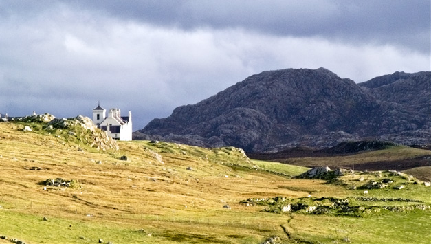 Uig Lodge, Isle of Lewis with a commanding view over the famous beach at Uig.